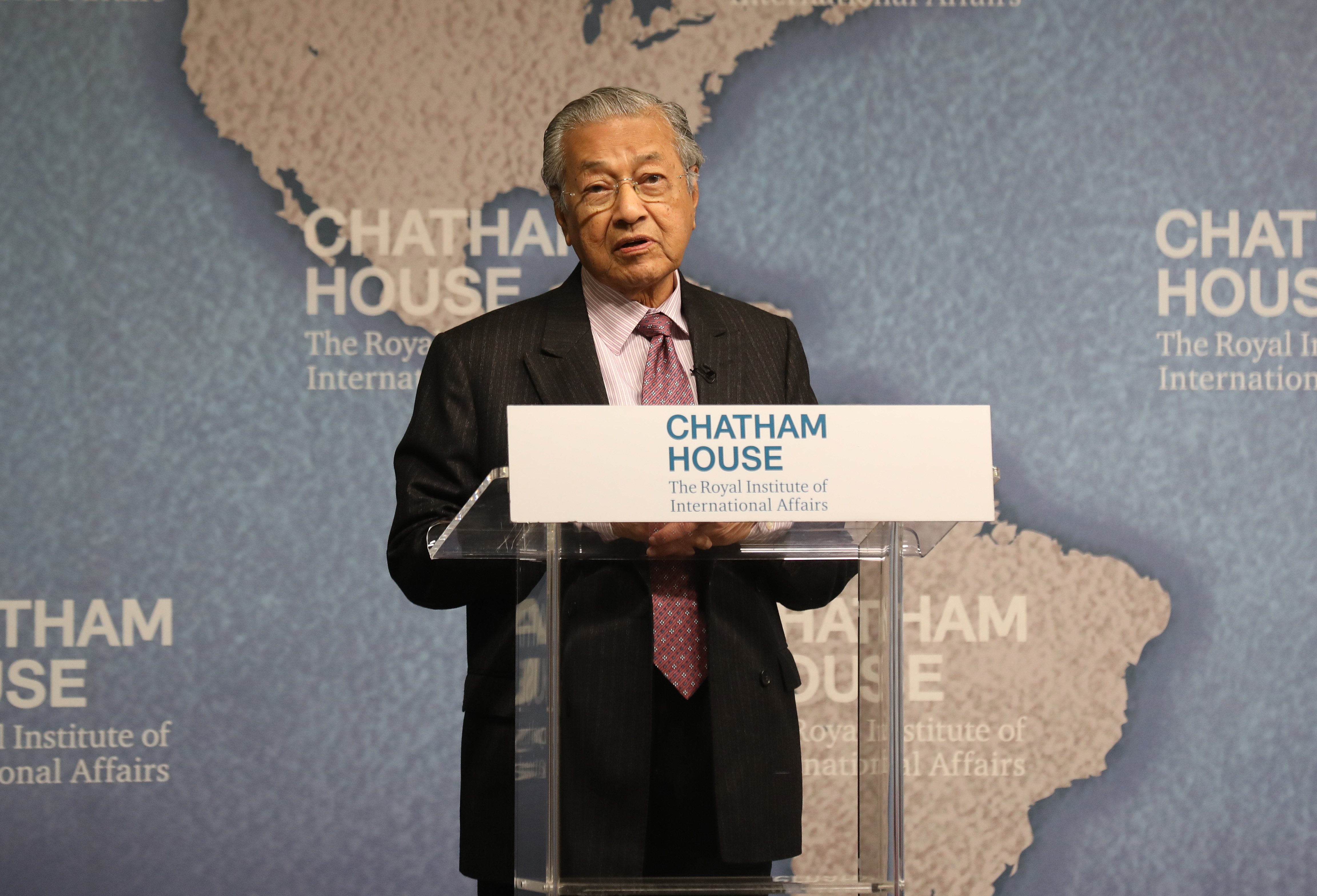 The Future of Democracy in Asia, 1 October 2018, cht.hm/2PdACsh